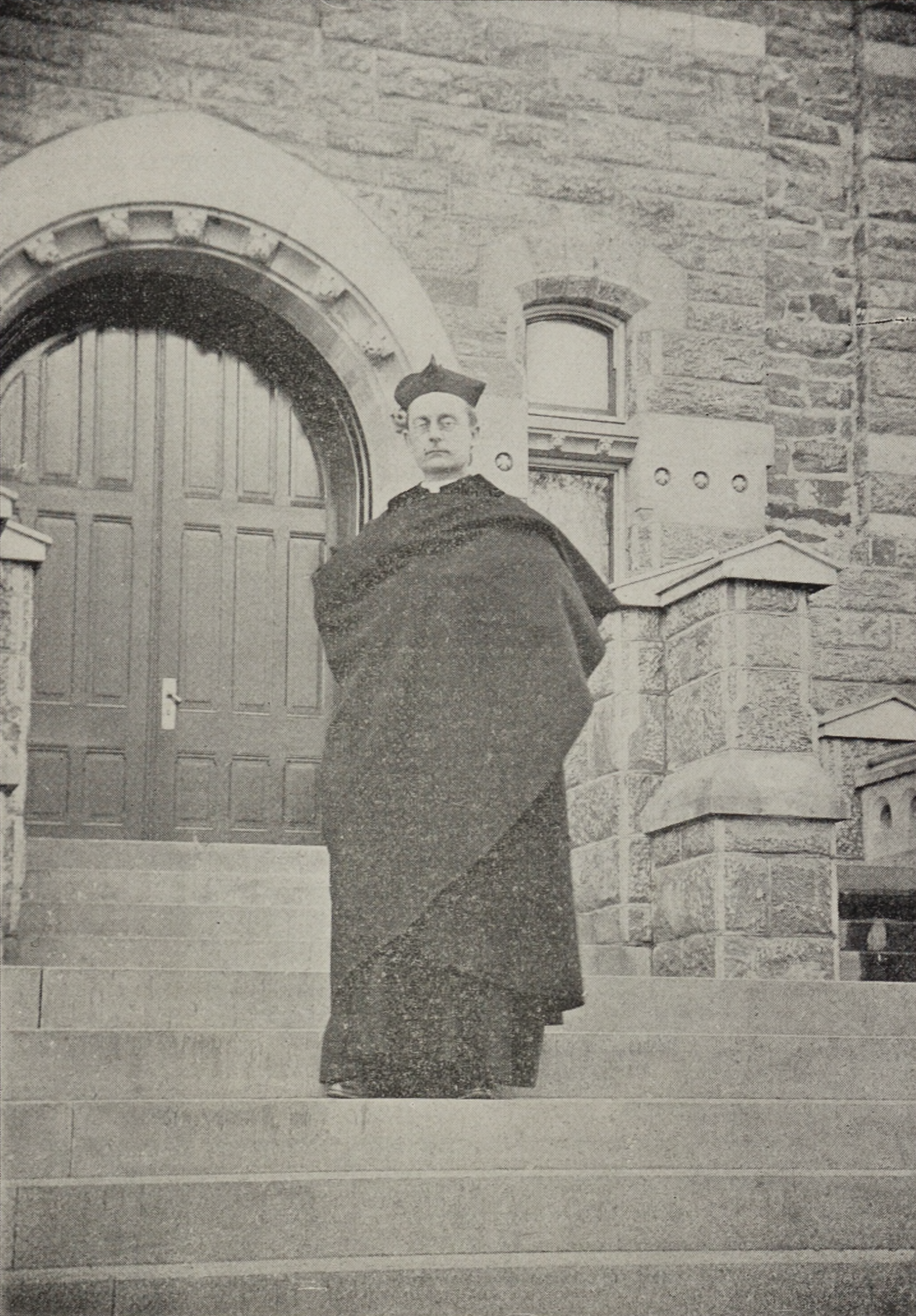 Photograph of J. Havens Richards, president of Georgetown University, on the steps of Healy Hall